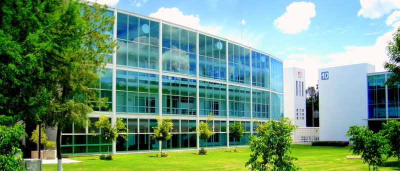 Edificio 4 (Building 4) ITESM—Querétaro Campus of the ITESM—Monterrey Institute of Technology and Higher Education, . Located in Santiago de Querétaro, Municipality of Querétaro, Querétaro state, central México.